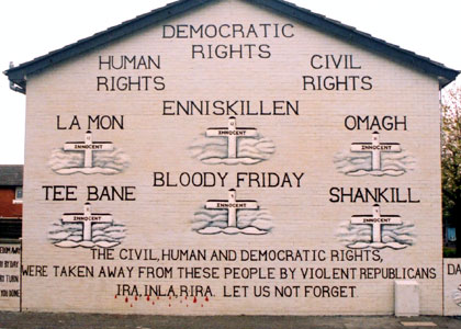 Mural on the Lower Newtownards Road, a Protestant area of East Belfast.